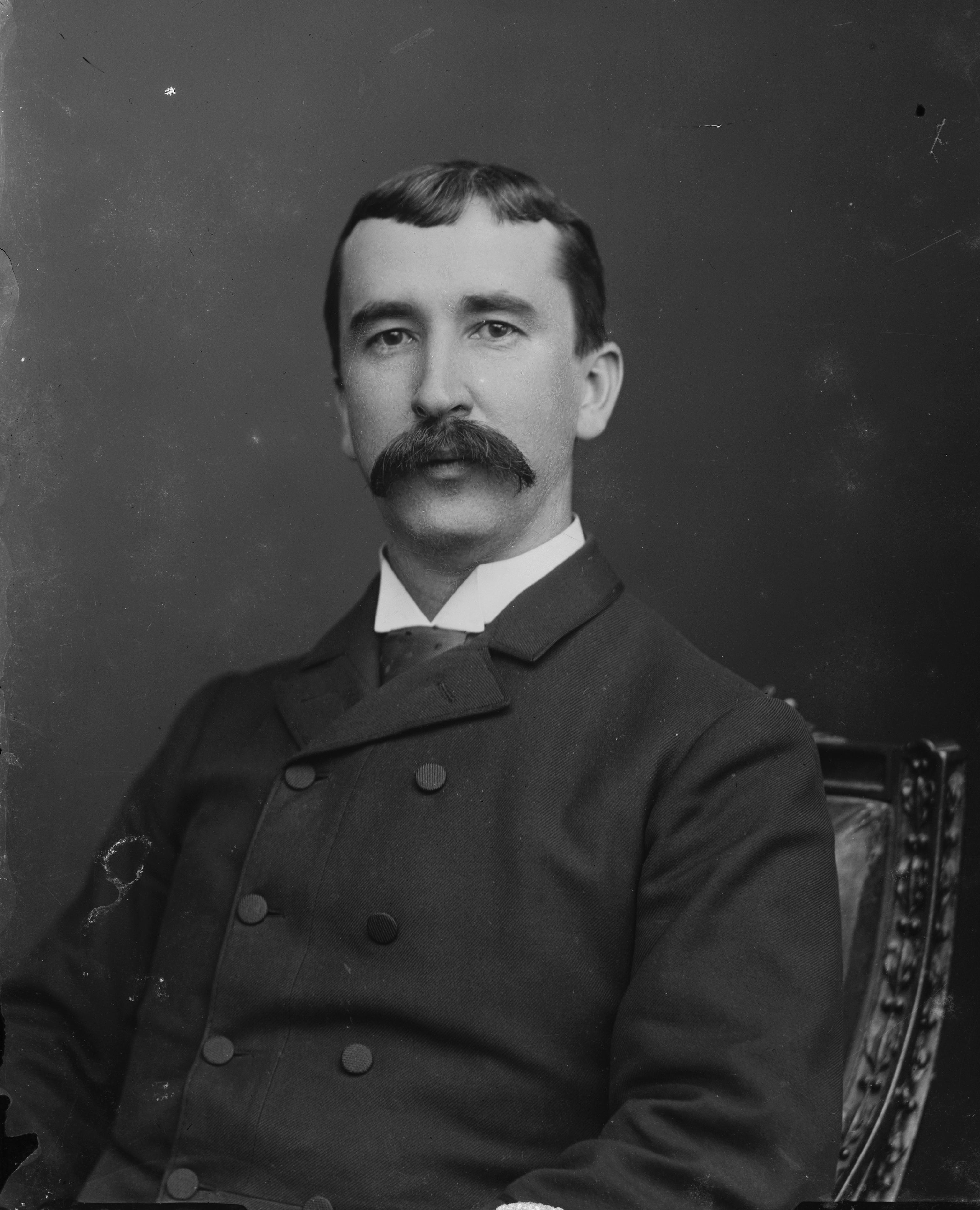 Herbert Baxter Adams. Library of Congress description: "Adams, Proff. H.B. John Hopkins Univ."